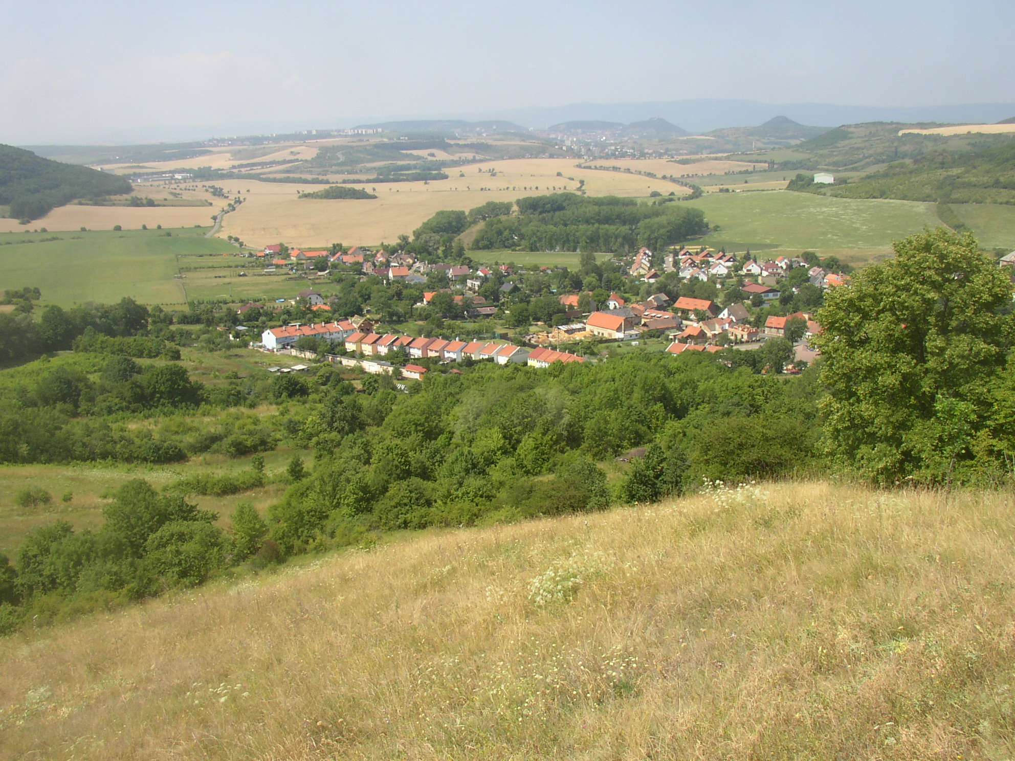 Village of Lužice (Most District), Czech Republic. A view from southeast.